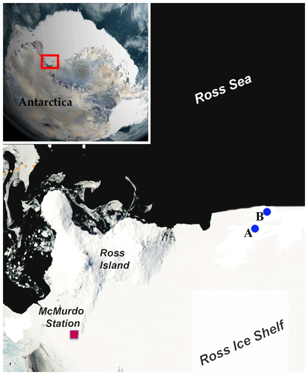 Known localities of Edwardsiella andrillae, n. sp. The site labeled A is at 77° 31.6’ S 171° 20.1’ E ; this corresponds to “Site 3” for the 2010-2011 SCINI dive series. The site labeled B is at 77° 28.03’ S 171° 36.28’ E ; this corresponds to “Site 4 (CH-1)” for the for the 2010-2011 SCINI dive series (Rack et al., 2012).